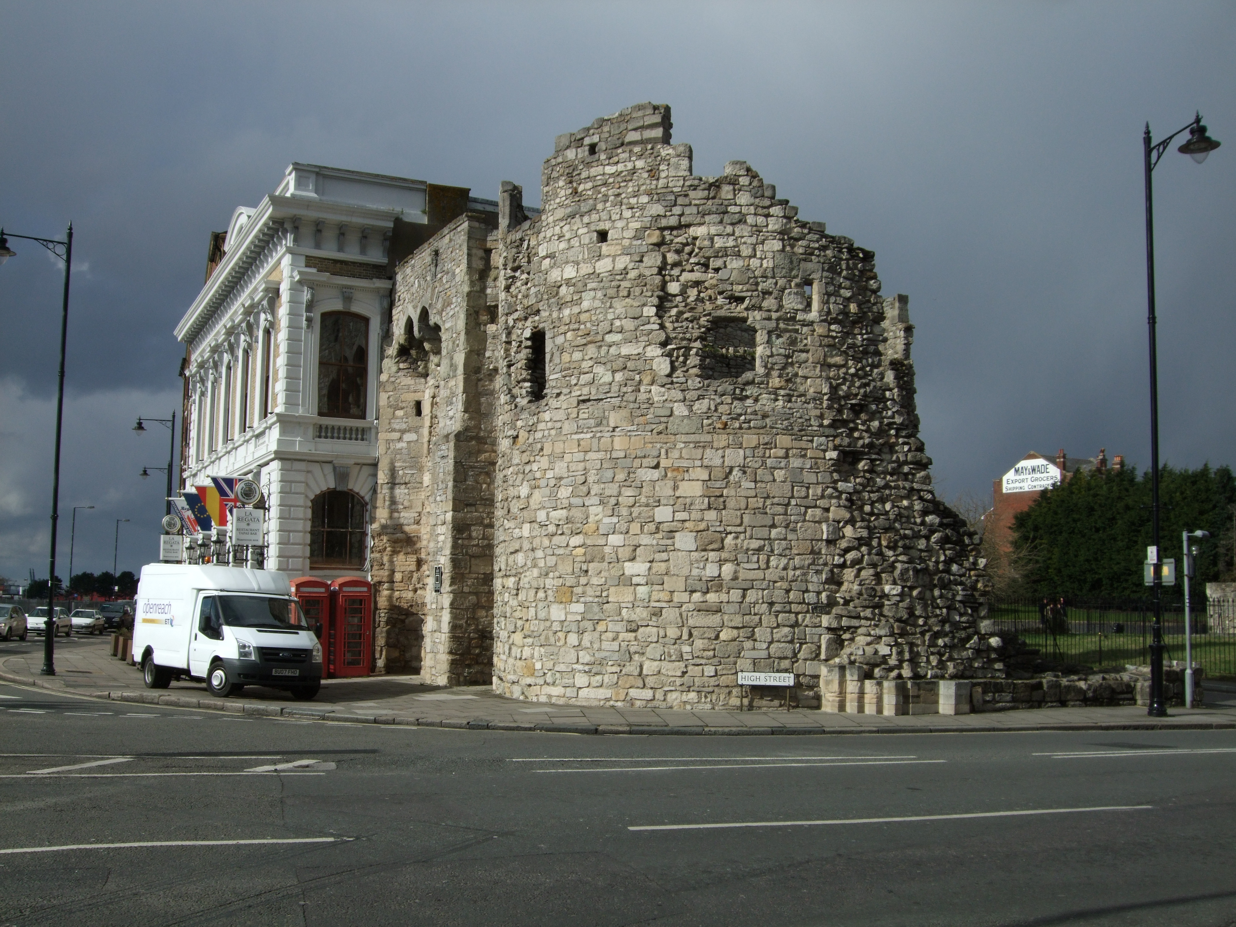 Southampton has the third most extensive medieval town walls surviving in Britain today (only Chester and York have more). This photograph shows one of two towers which once flanked the Water Gate on the southern side of the town walls (the other tower has been completely erased). As the name indicates, the Water Gate used to open out onto Southampton Water; however, much land has since been reclaimed by the docks.